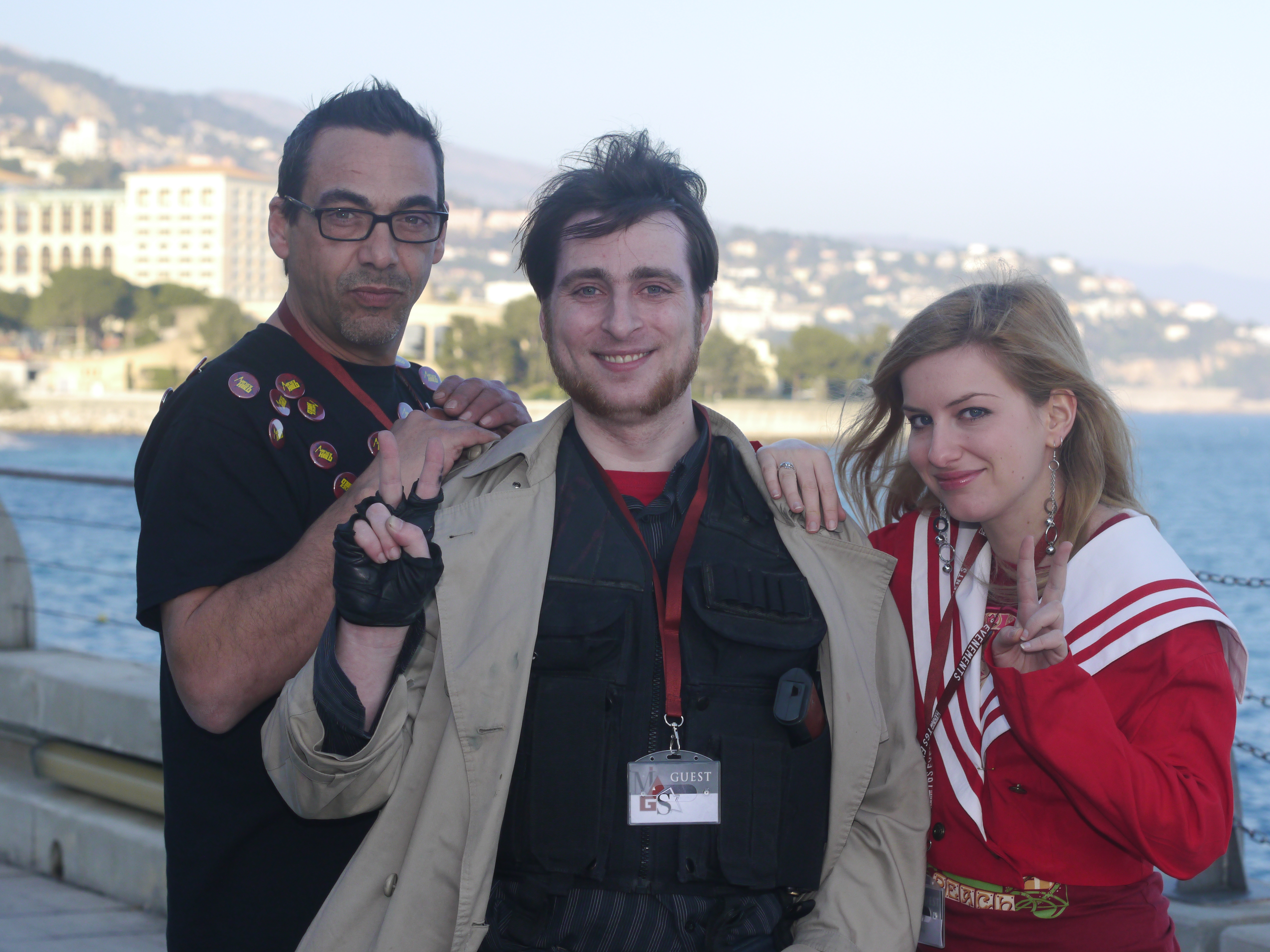 Monaco Anime Game Show Festival; 2013